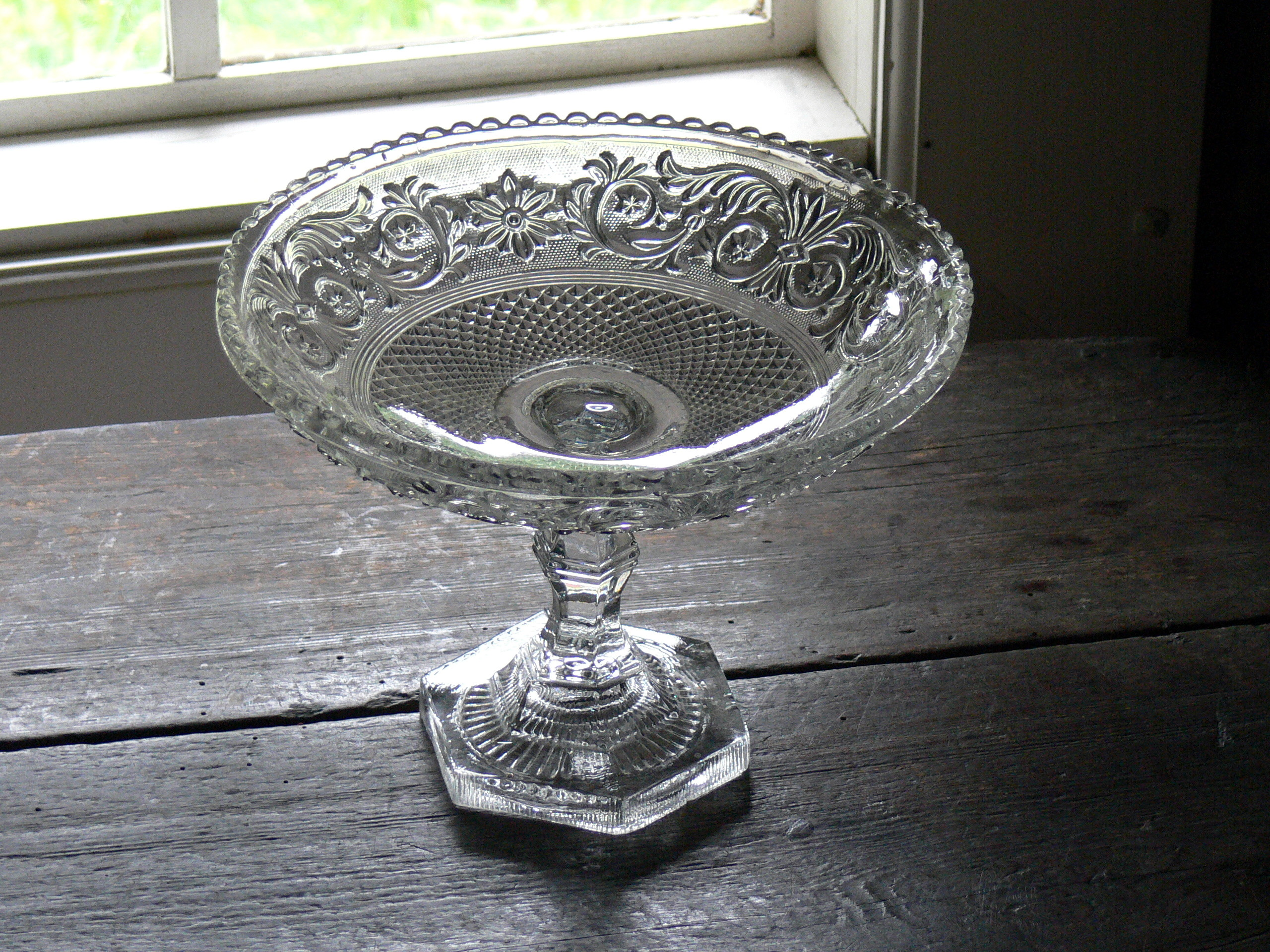 Bosmåla cottage on Kulturen, Lund. Living room - glass bowl.